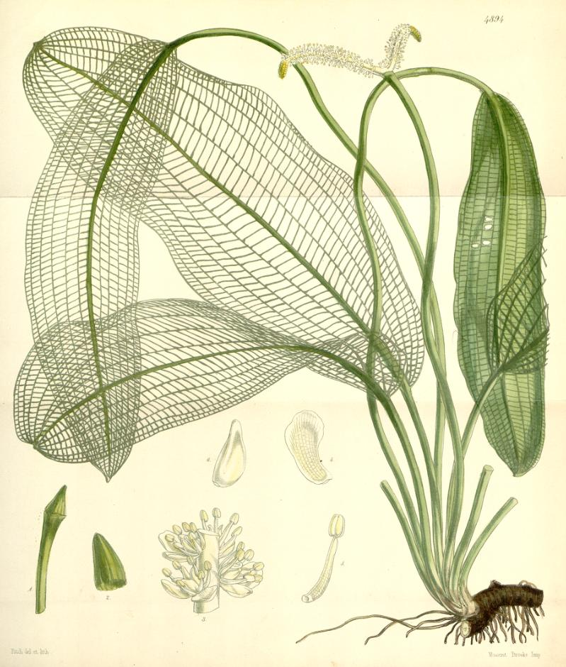 Illustration of Aponogeton madgascariensis (Syn. Ouvirandra fenestralis)